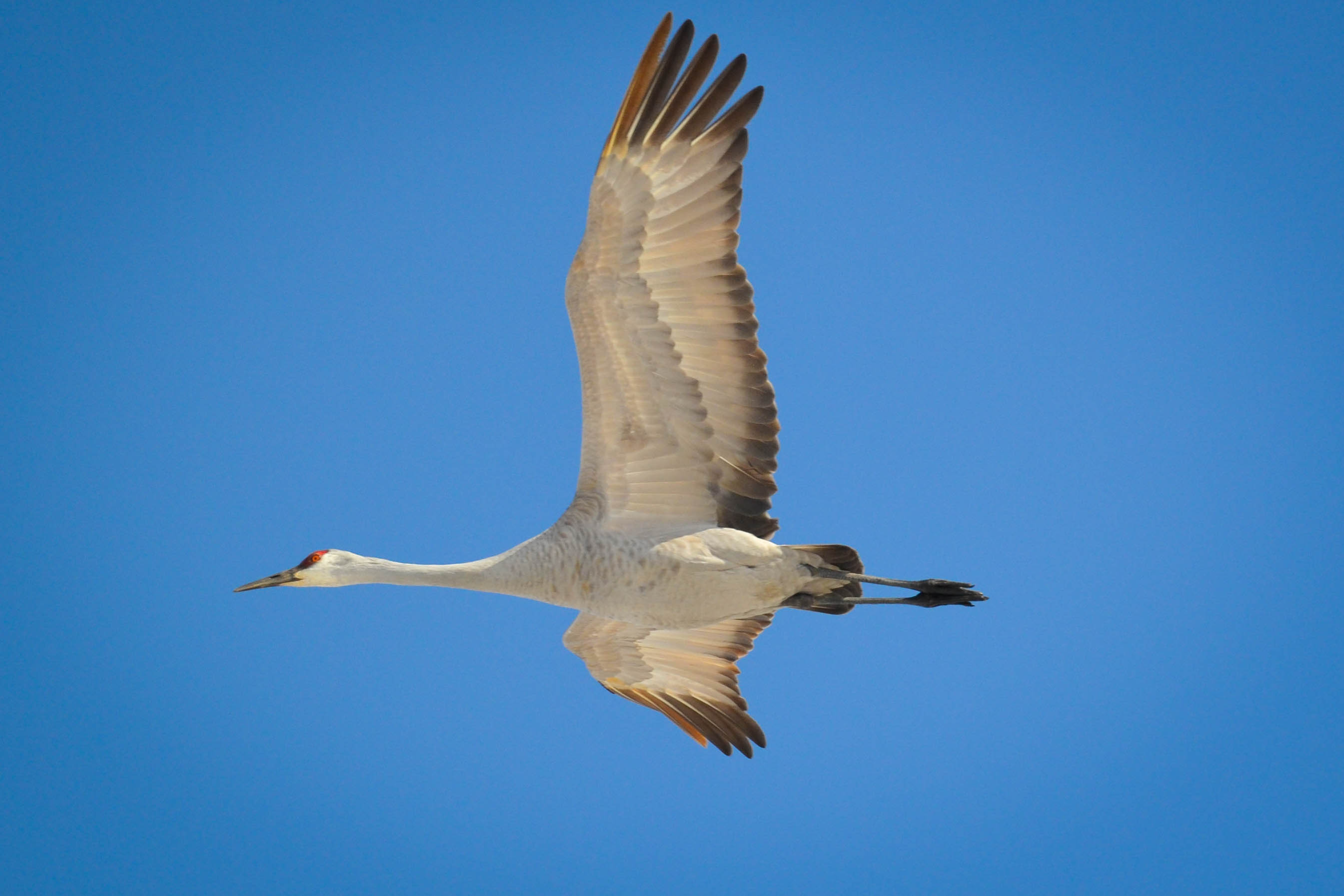 Ewing Bottoms, Brownstown, IN